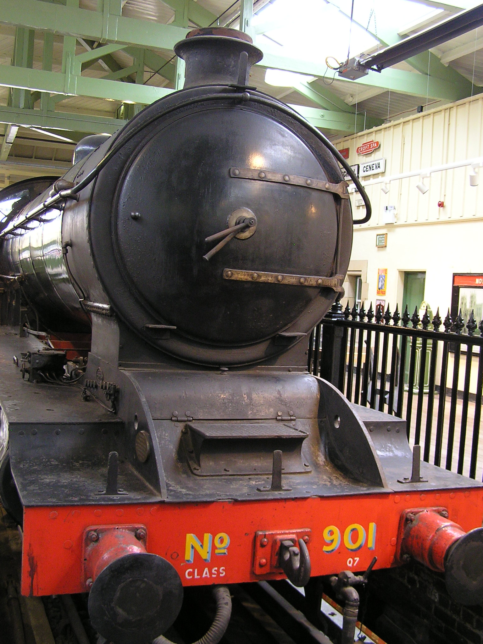 North Eastern Railway T3 (LNER Q7) class 0-8-0 No 901, designed by Sir Vincent Raven for heavy freight, built at Darlington in 1919, withdrawn in 1962, BR No.63460. Loaned to North Eastern Locomotive Preservation Group in 1980s the NYMR.